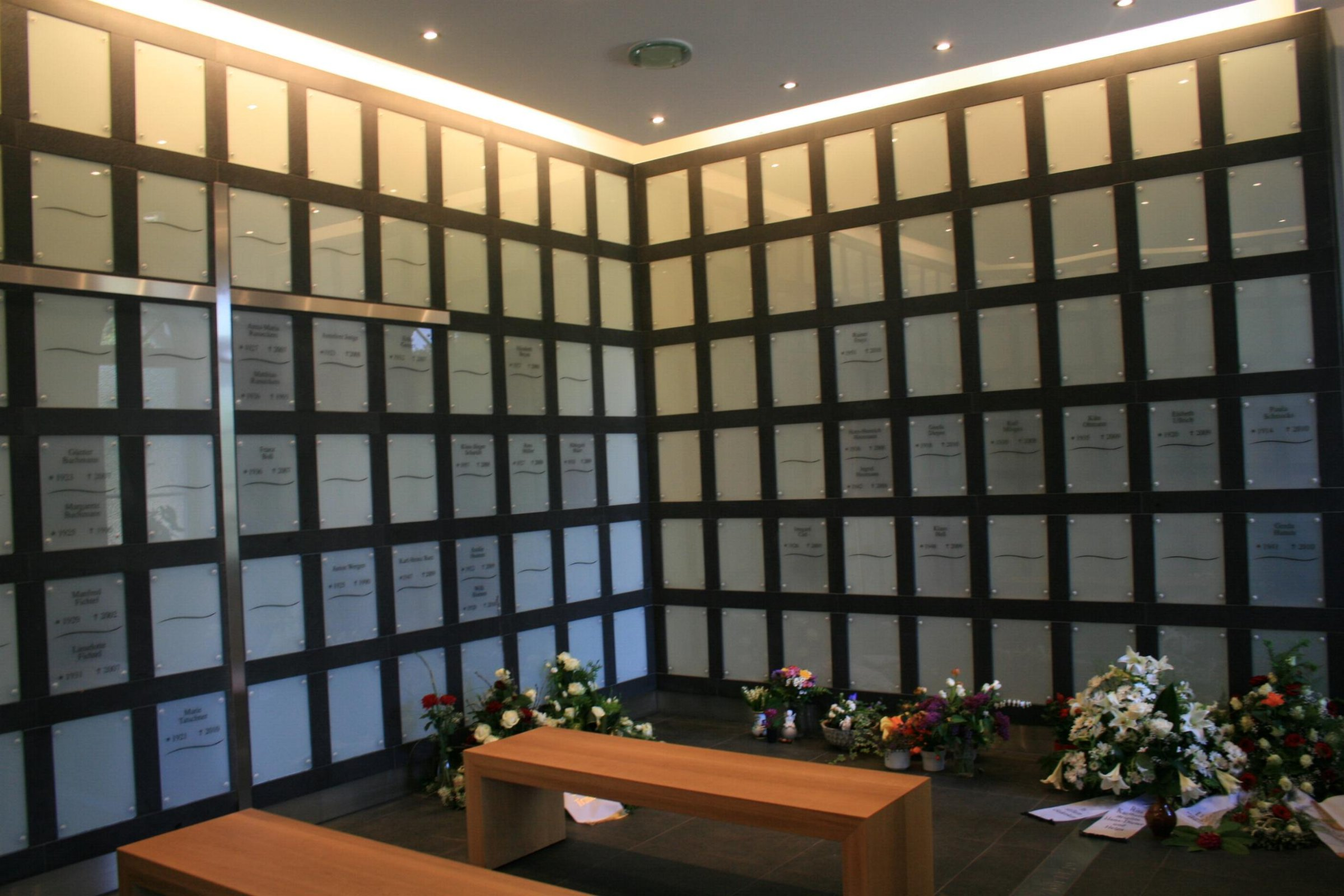 Cultural heritage monument No. K 080 in Mönchengladbach